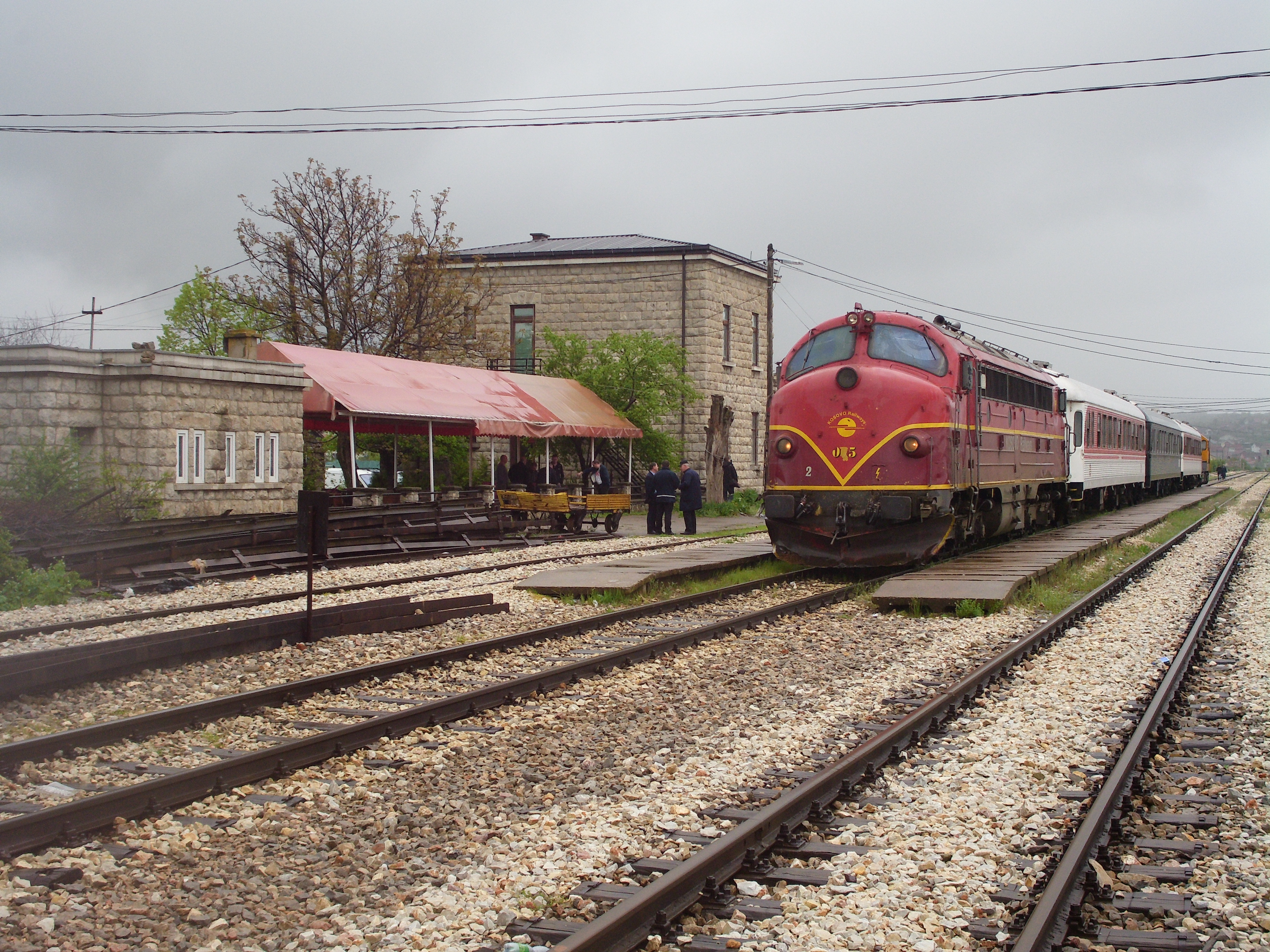 Tourist train of Kosovo Railways at a station in Drenas (formerly Drenica) on a route from Fushë Kosovë to Pejë.